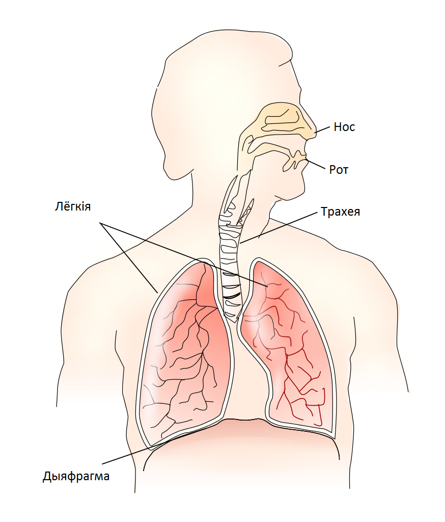 Respiratory system